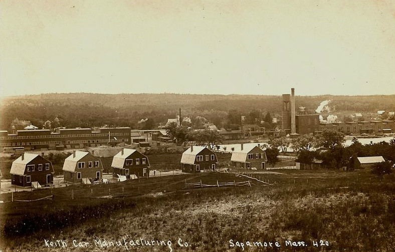 Photo postcard of the Keith Car Manufacturing Company in Sagamore, Massachusetts. The company produced railroad cars.